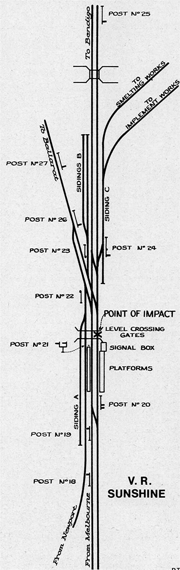 Layout of tracks at Sunshine station in 1908